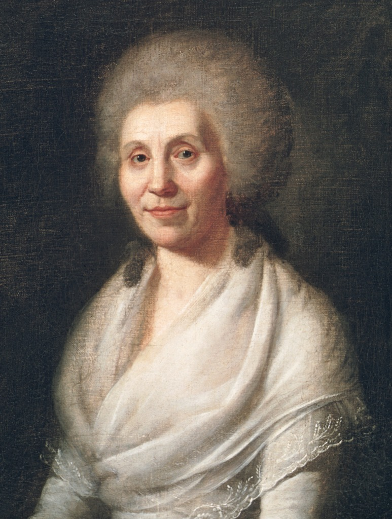 Friedrich Schiller's mother Elisabeth Dorothea Schiller, née Kodweiß